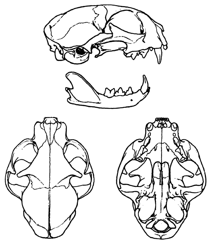 European wildcat skull